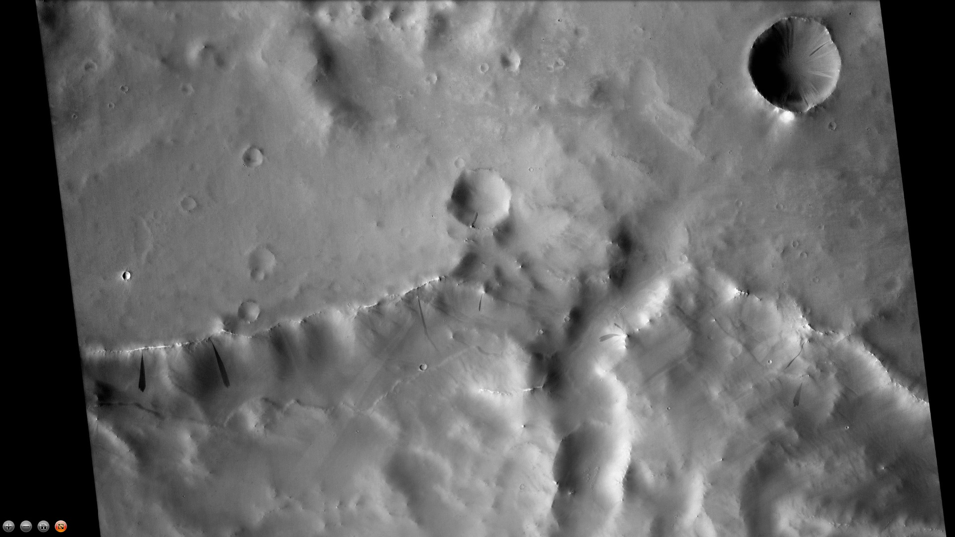 Teisserence de Bort Crater showing streaks, as seen by CTX